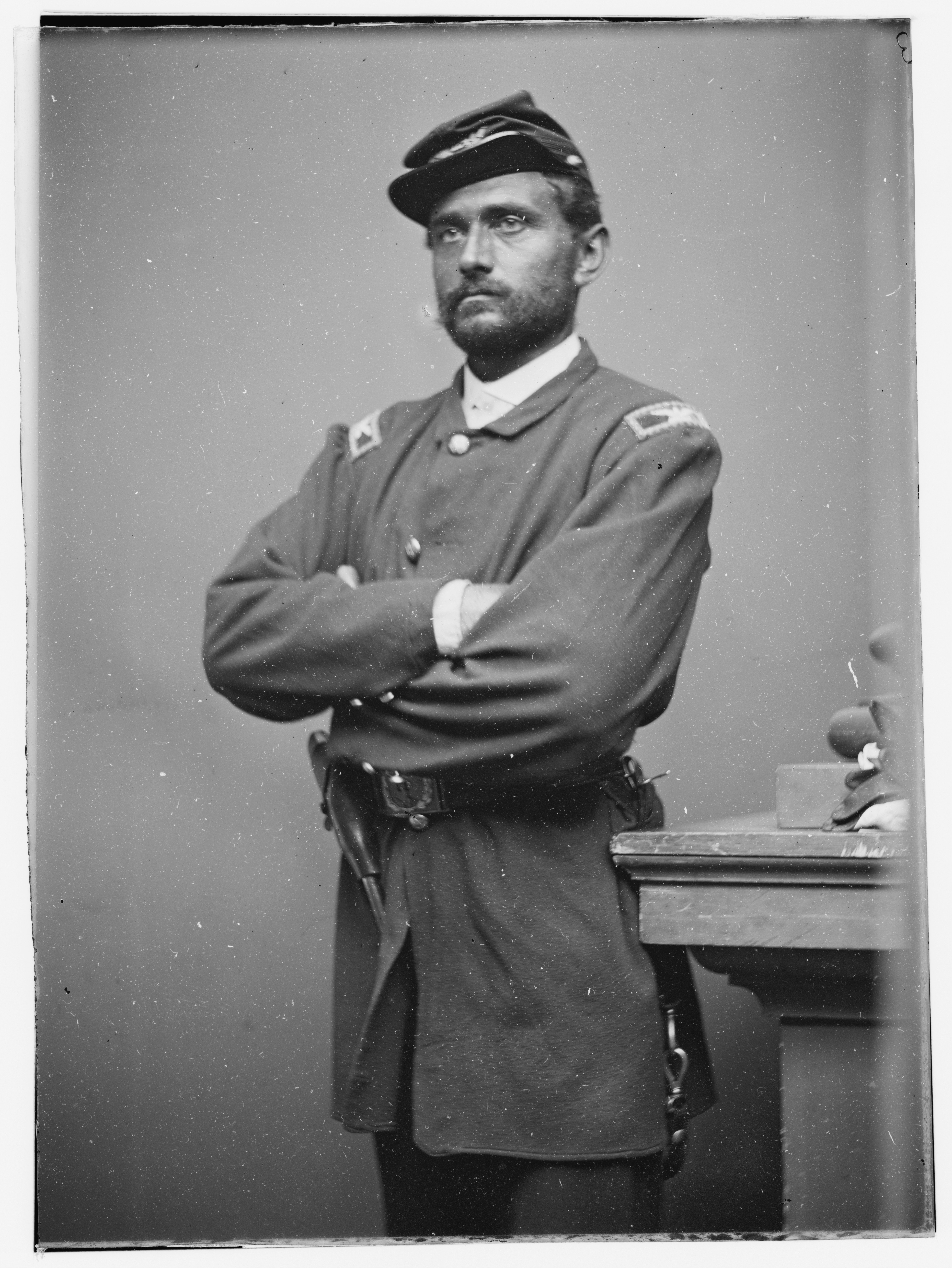 Title: Col. Van Horne Ellis, 124th N.Y. Inf Physical description: 1 negative